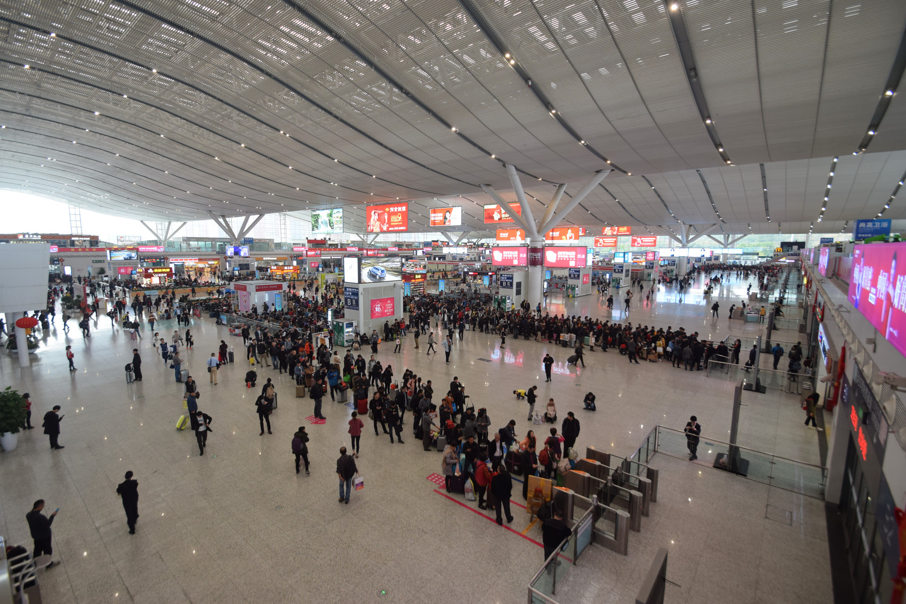 Concourse of Shenzhen Bei (North) Railway Station